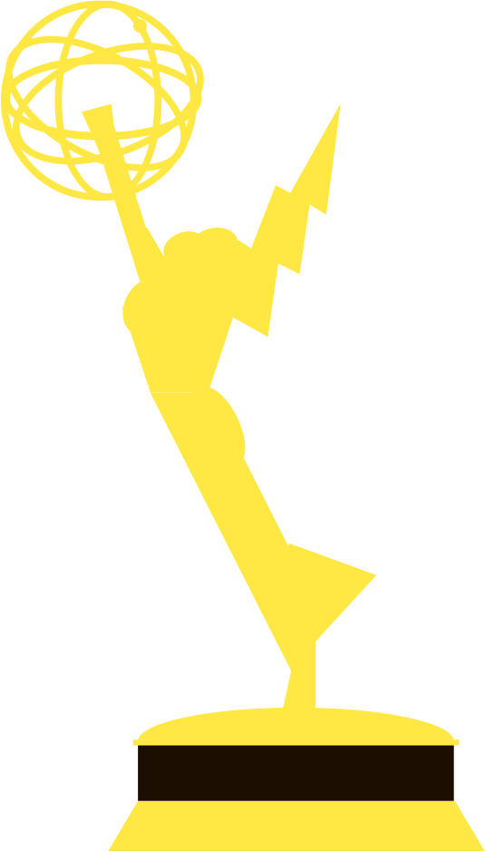 A simplified icon inspired by the Emmy award statuette. Created using basic shapes in PowerPoint.